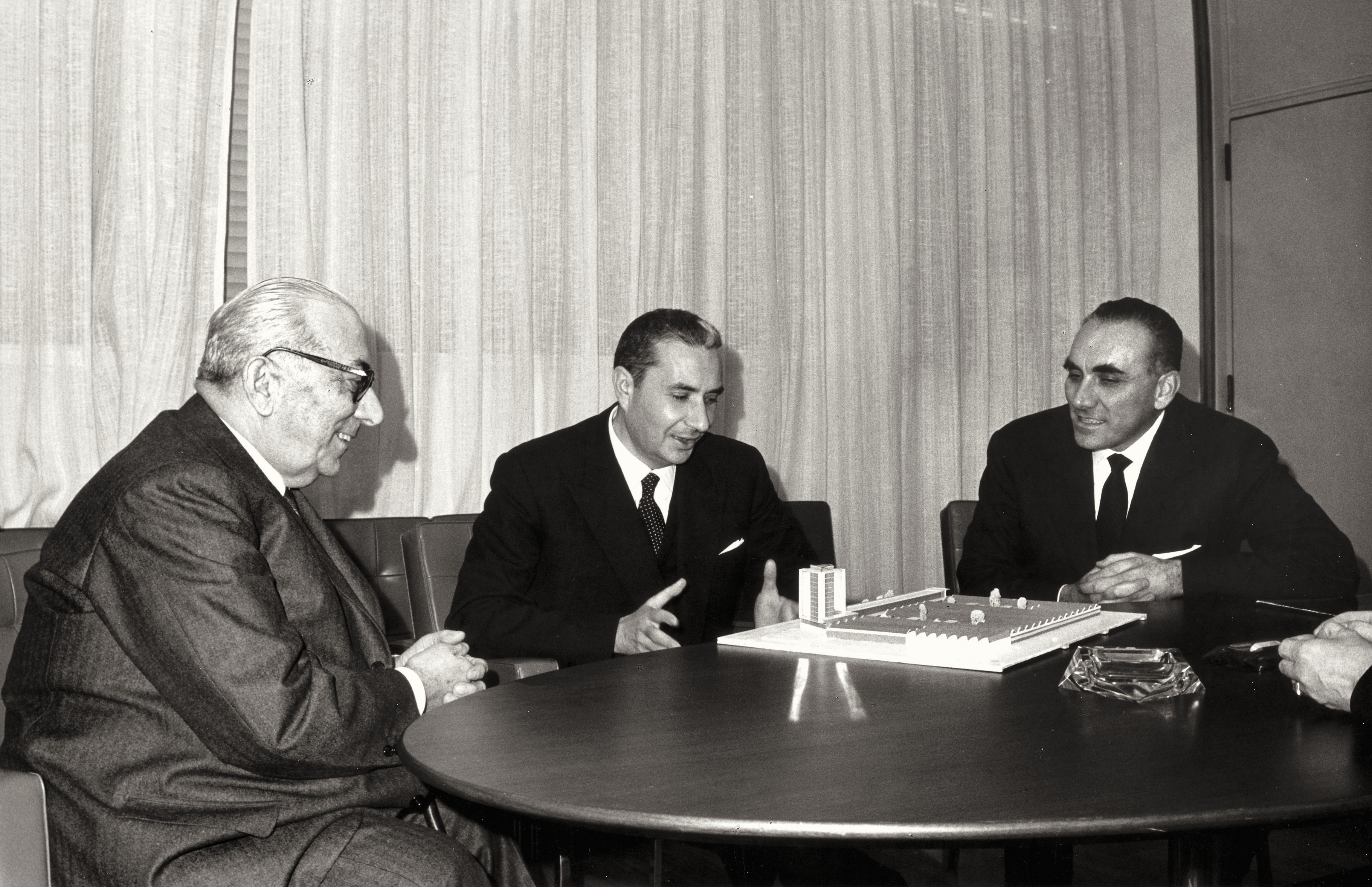 Italian publisher Arnoldo Mondadori with Aldo Moro and Giorgio Mondadori.